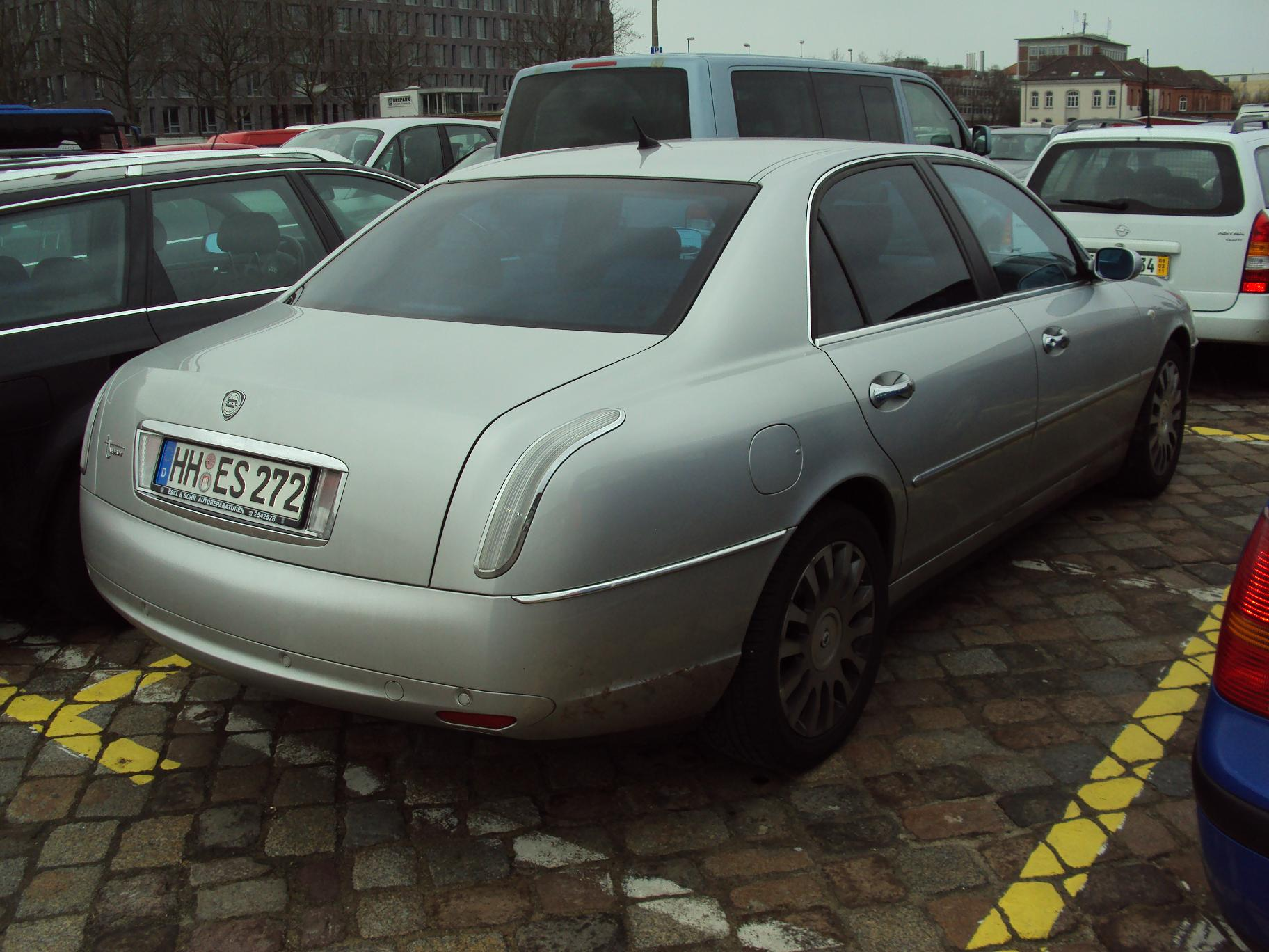 Lancia Thesis